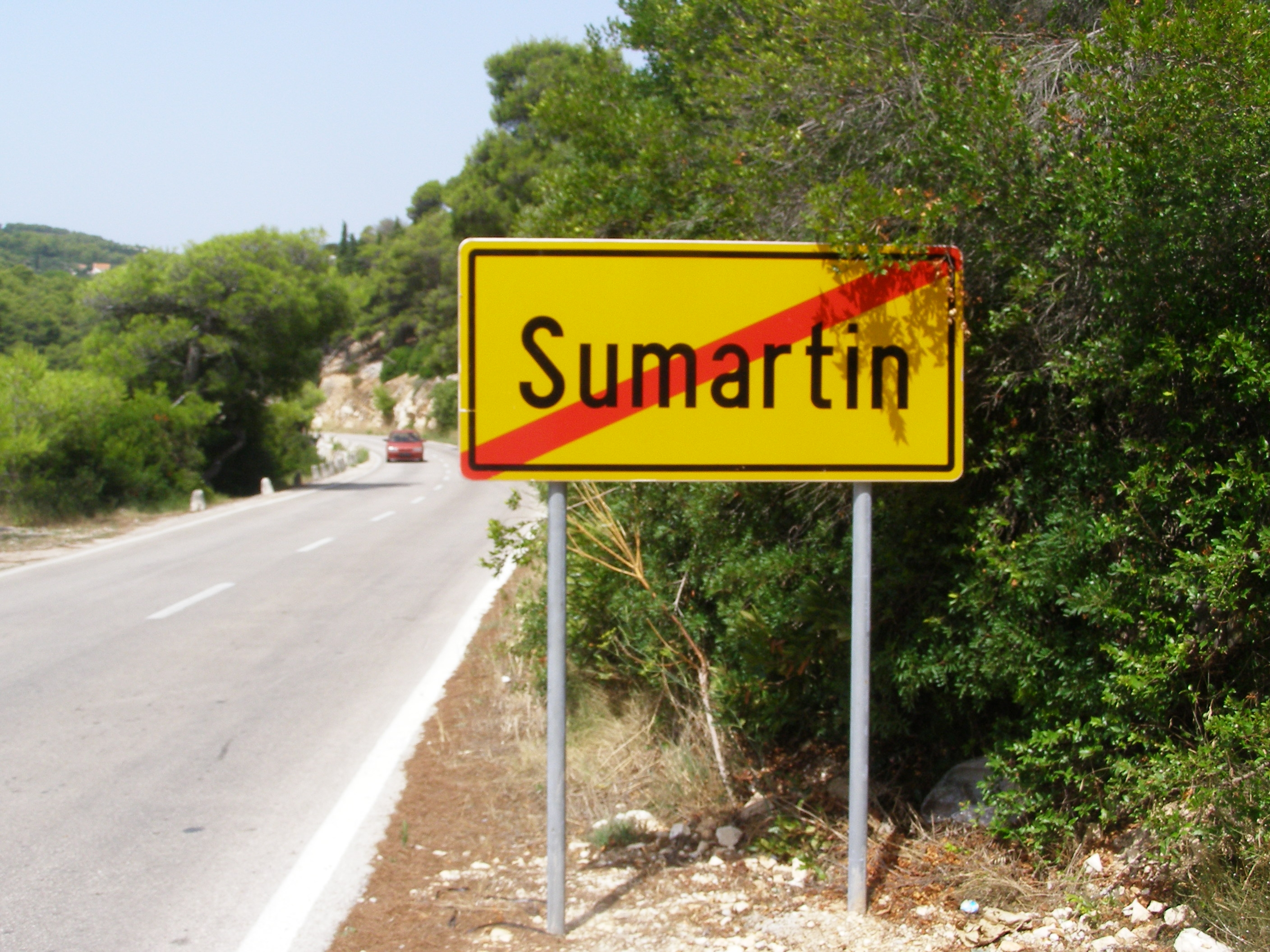 End of Sumartin sign, Brač, Croatia